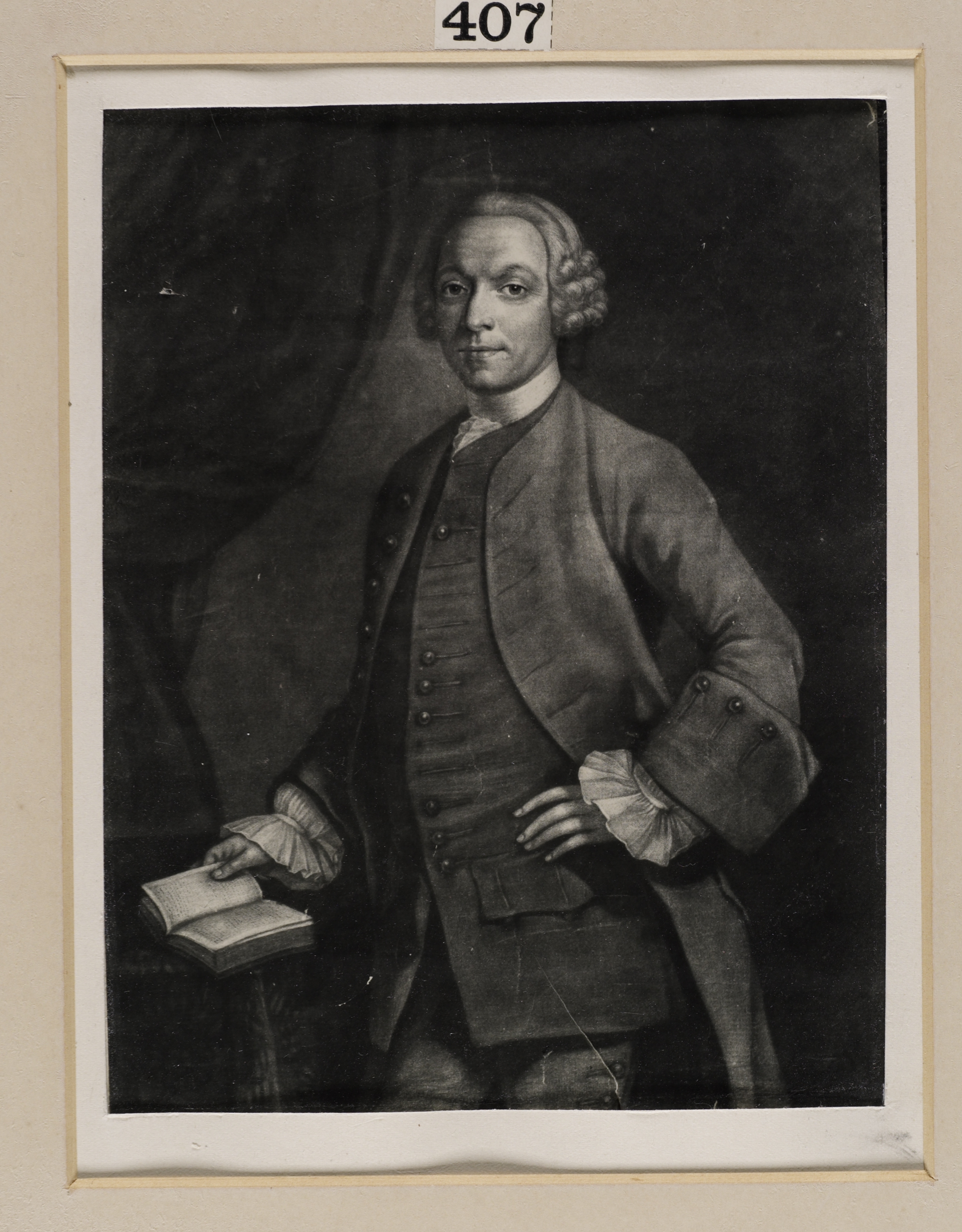 Dr. Archibald CAMERON (1707- 1753) Portrait of Archibald Cameron, standing, with book in hand, resting on table. Handwritten note on mounting says: "Dr. Archibald Cameron, Lochiel's brother, Executed 1753"